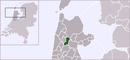 Locator map of Dutch municipalities in Noord-Holland (LocatieHeerhugowaard.png)